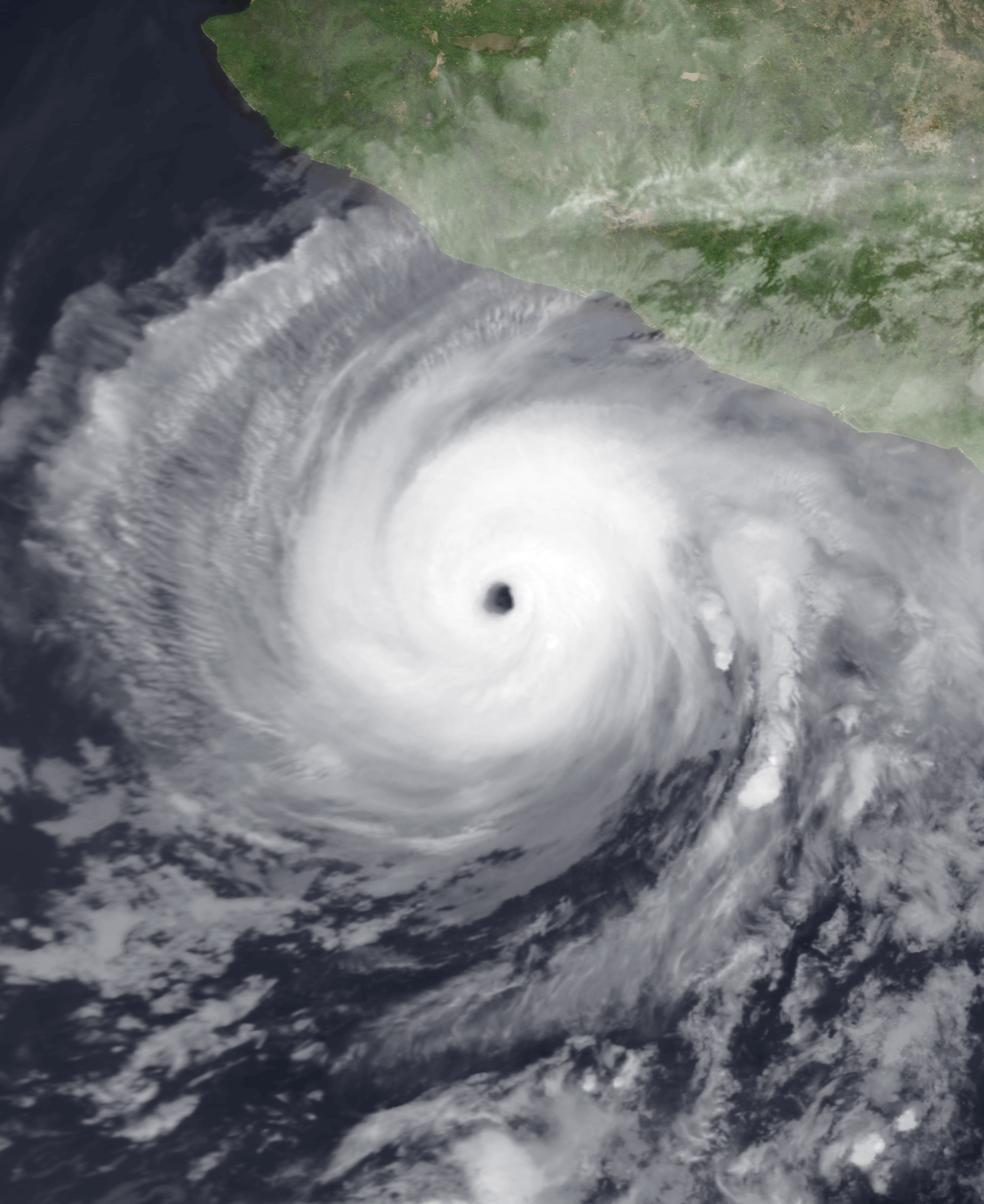 Hurricane Adolph near peak intensity on May 29, 2001